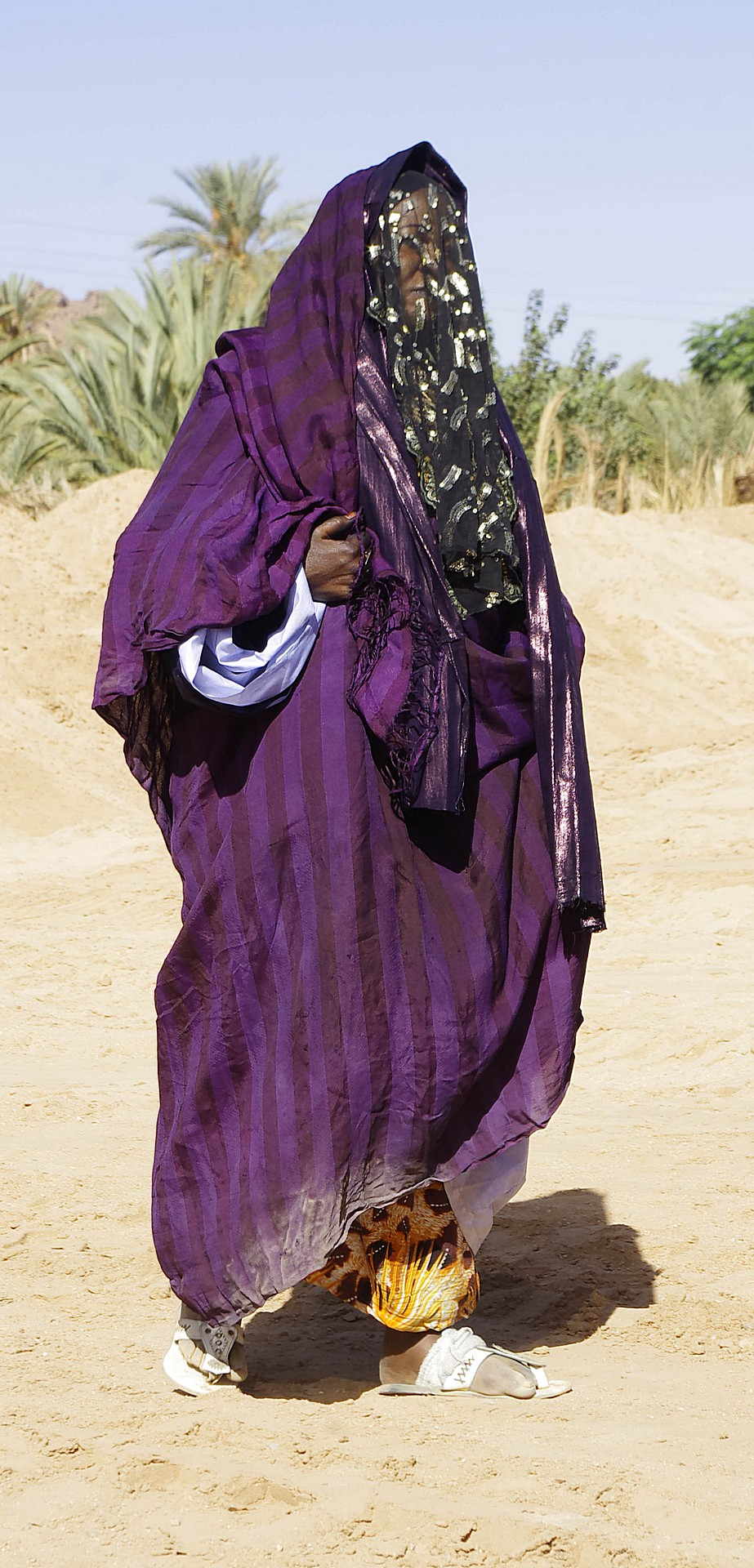 tuareg This is an image of Cultural Fashion or Adornment from Algeria